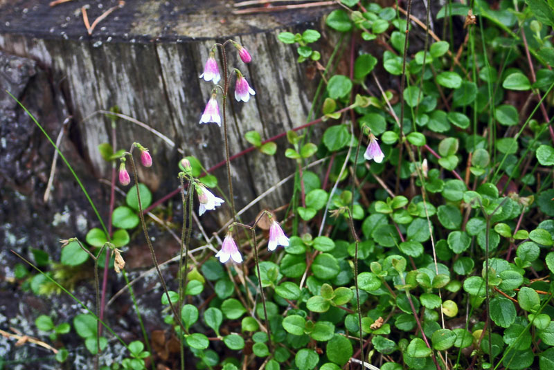 Linnaea borealis growing in a small clump on a tree stump in woodland margins, Moray, Scotland. There were no other clumps evident.